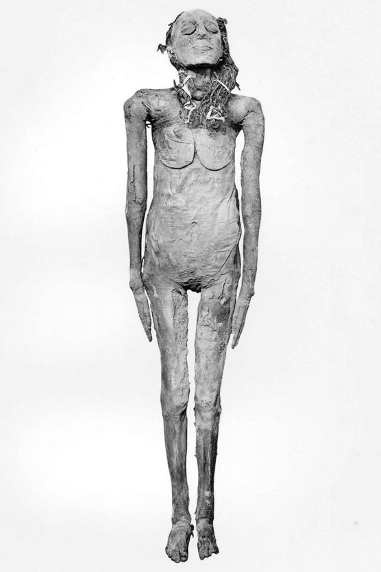 Mummy of Neskhons, Chantress of Amun during the 21st dynasty, found in DB320.